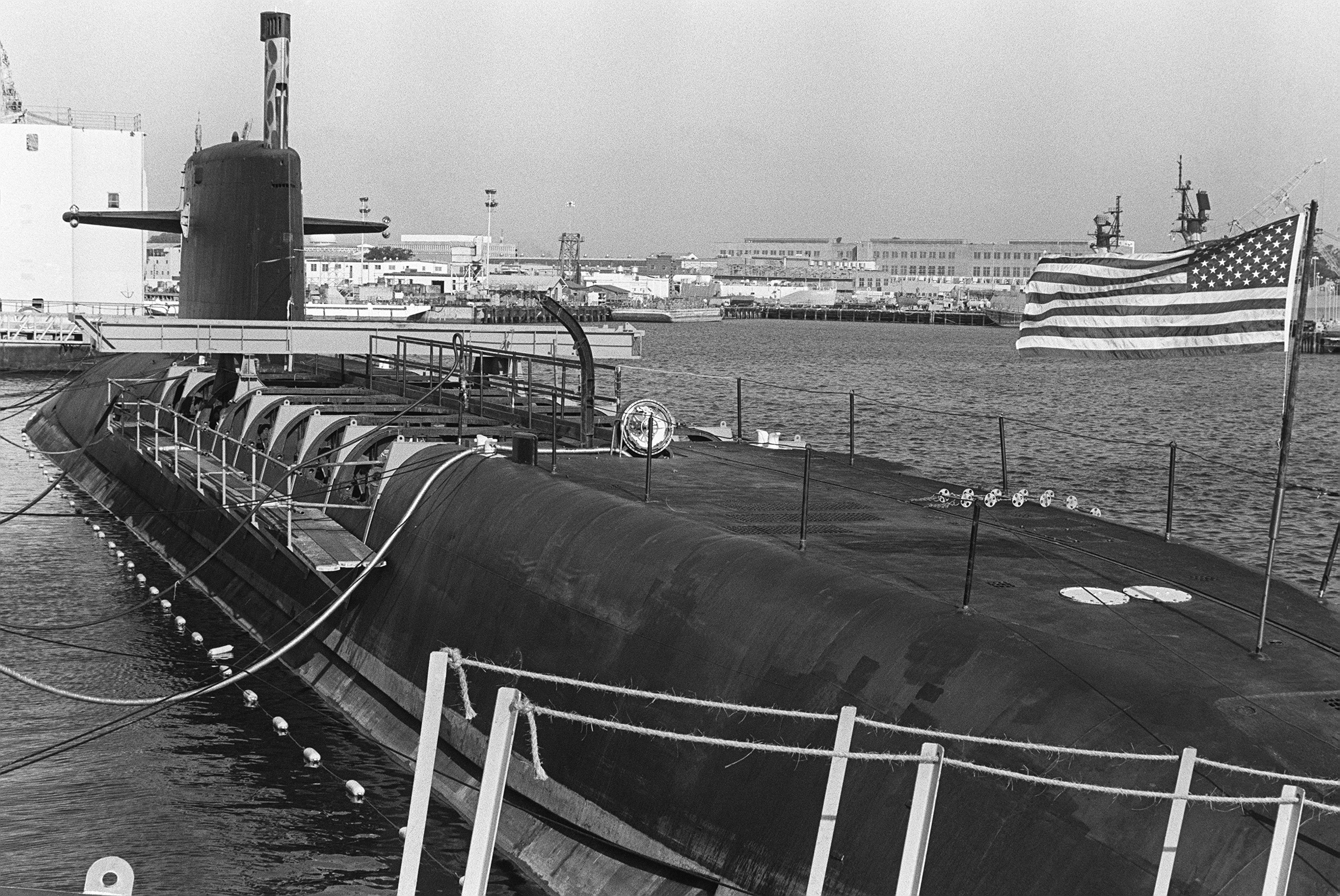 A port stern view of the nuclear-powered strategic missle submarine USS Sam Rayburn (SSBN-635) being dismantled prior to decommissioning.